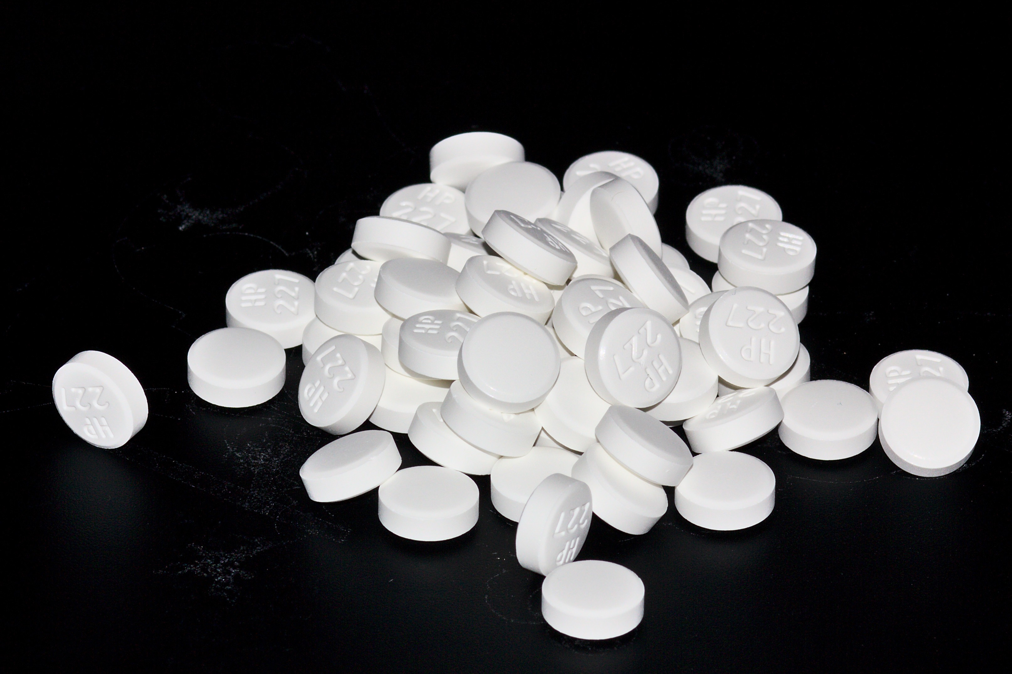 A pile of round white aciclovir tablets